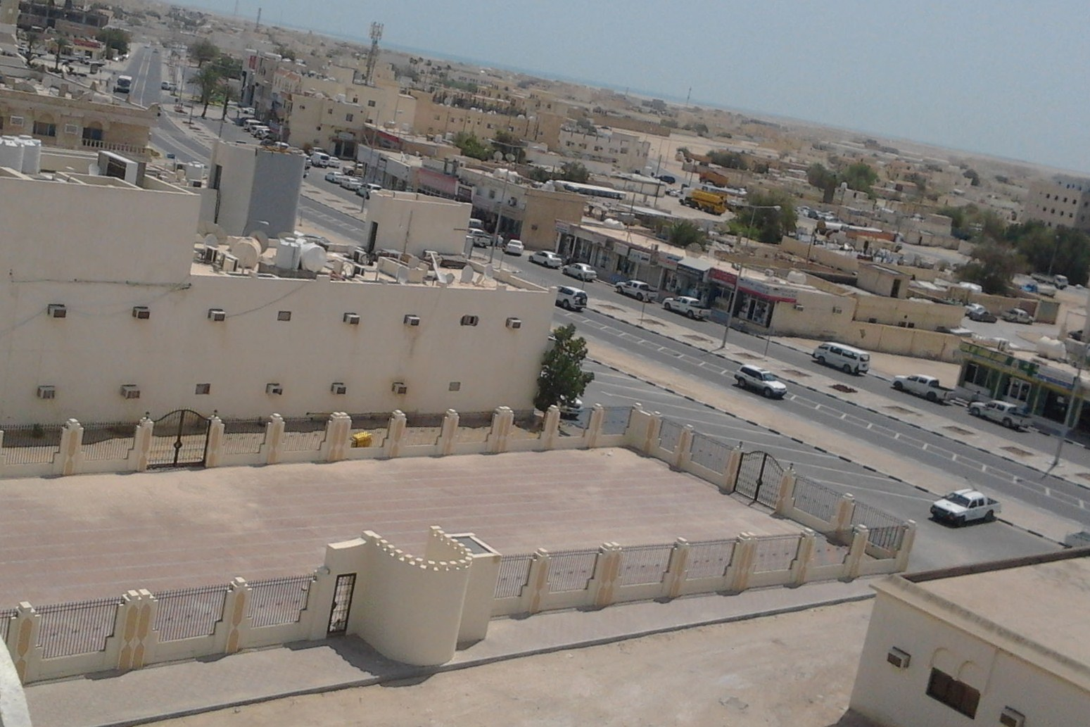 Eidgah at Al Khor, Qatar